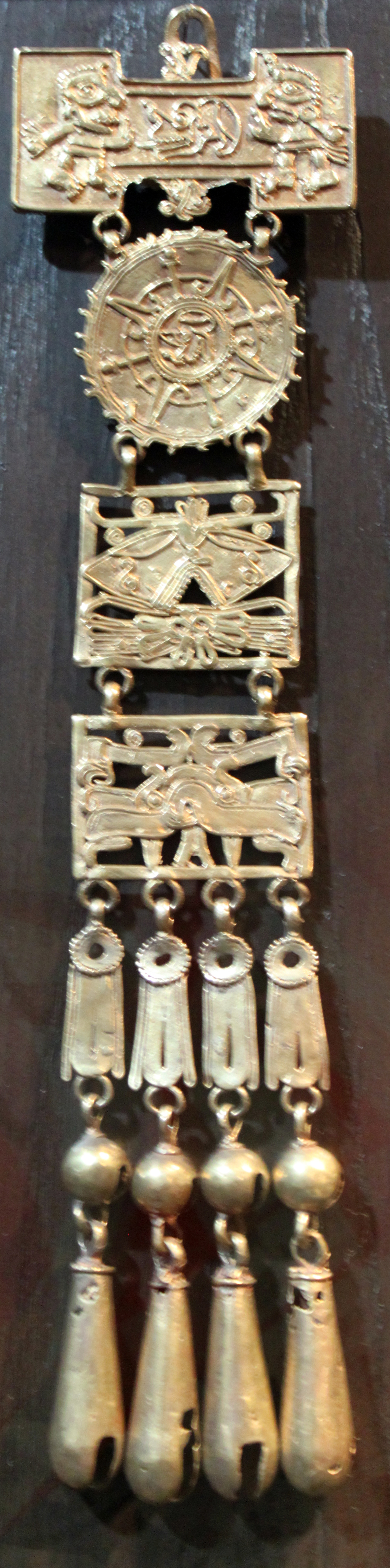 Golden ear jewellery; Grave No. 7, Monte Alban; Museum of Cultures of Oaxaca